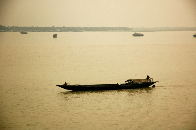 Boats in a dim light in the Sundarbans.